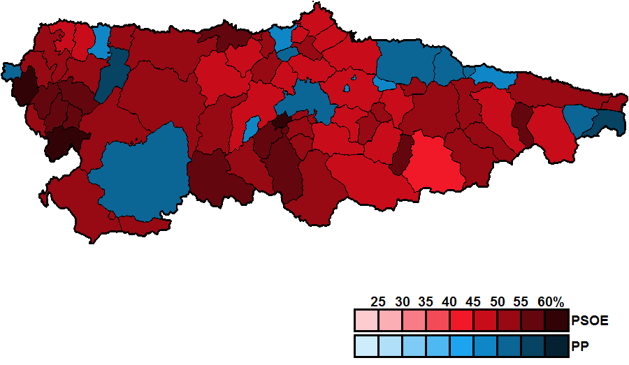 Most-voted party in Asturias municipalities, showing vote share obtained, in the Spanish general election, 2008.